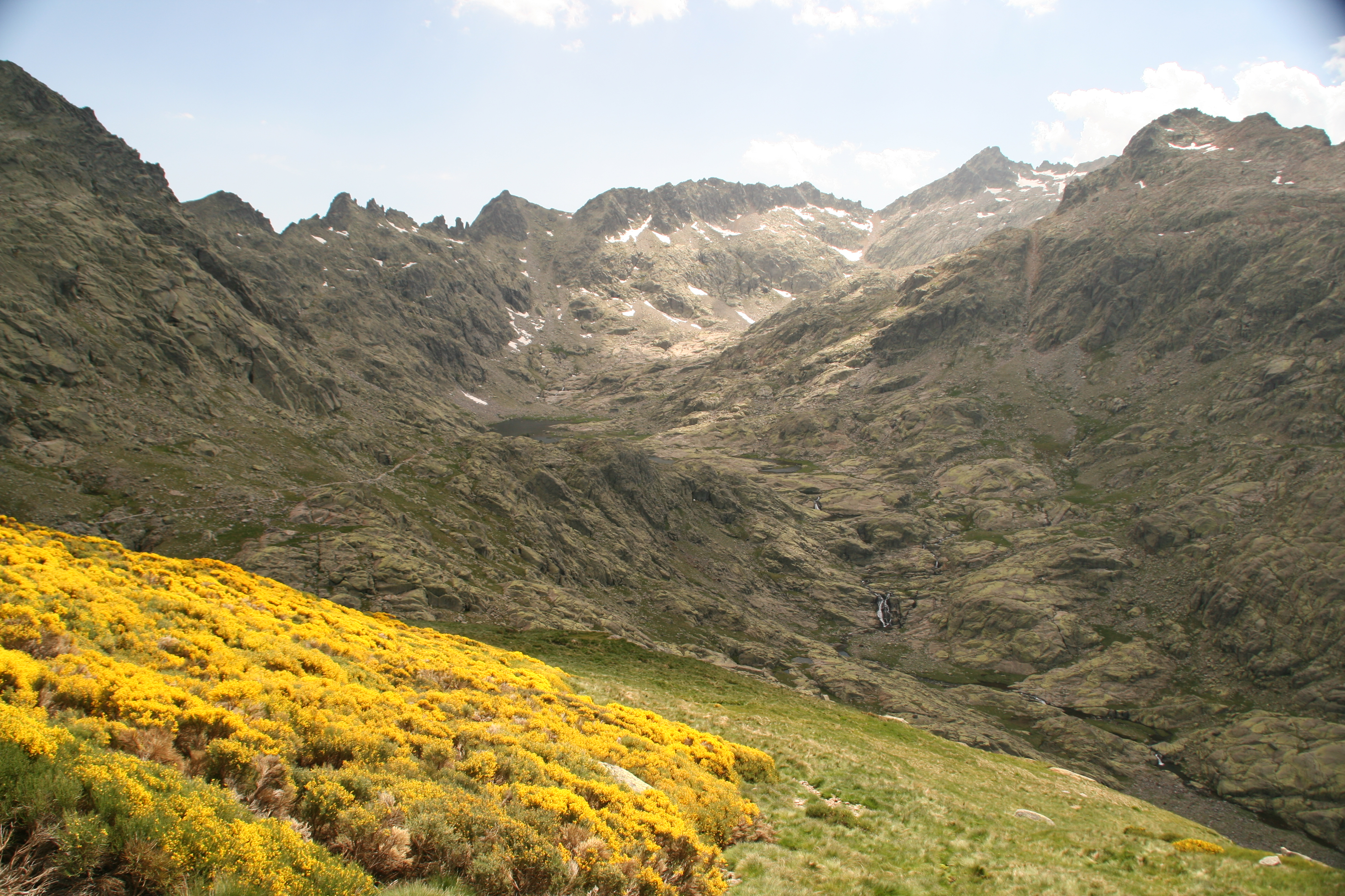 Circo de Gredos is a glaciar circus over plutonic rocks. It is in the Sierra of Gredos in the centre of the Spain. This is a photography of a Special Area of Conservation in Spain with the ID: ES4110002. Natura2000 entry, EEA entry